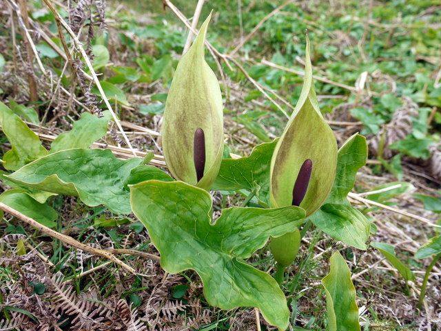 Jack in the Pulpit (Arum maculatum) Surprisingly common in disturbed, stony ground along the valley of the Bollihope Burn. Also known as Cuckoo-Pint, Lords and Ladies and a multitude of other local names Arum_maculatum The club-shaped organ or appendix develops a strong unpleasant odour and a temperature rise of up to 15 degrees above ambient, a 'metabolic explosion' fuelled by starch (thermogenesis). The whole purpose of this is to create a trap for small flies which attempt to land on the appendix but instead fall into the floral chamber enclosed in the lower part of the wrapping spathe. The flies receive food and a shower of pollen during an overnight stay but are eventually released and effect pollination of separate plants nearby.